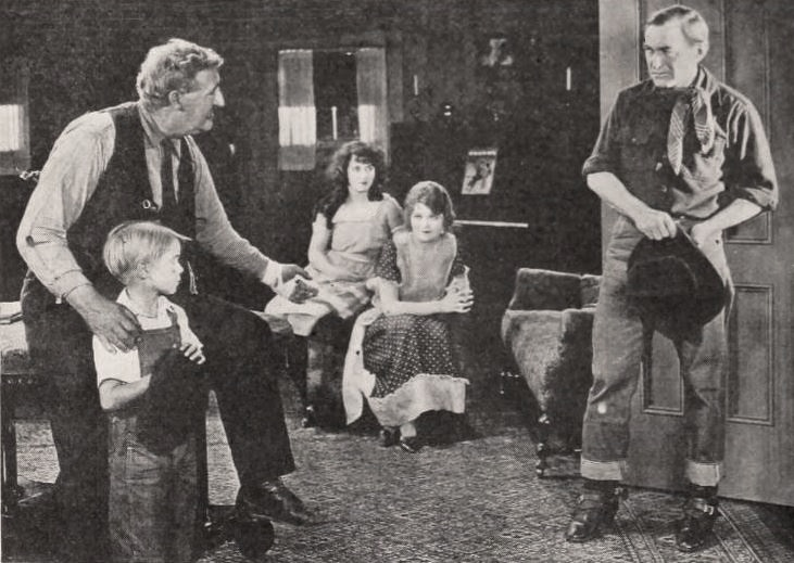 Still from the American western film The Fox (1921) with George Nichols, B. Reeves Eason, Jr., Gertrude Olmstead, Betty Ross Clarke, and Harry Carey, on page 90 of the November 5, 1921 Exhibitors Herald. Young Eason died in a traffic accident shortly after filming of The Fox was completed.